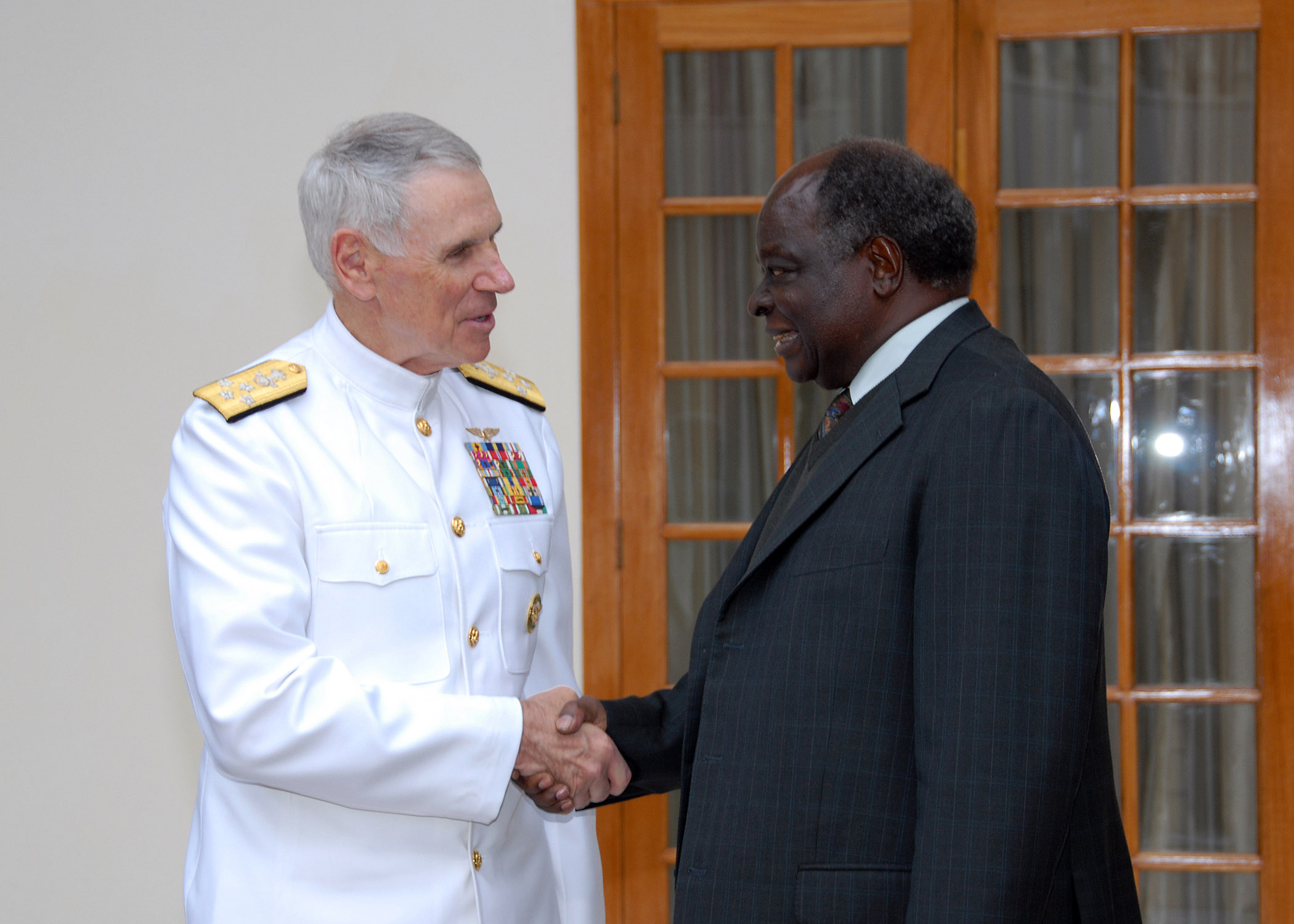 NAIROBI, Kenya (July 19, 2007) – Adm. William J. Fallon, commander of U.S. Central Command, meets with Kenyan President Mwai Kibaki. Admiral Fallon is visiting countries within the U.S. Central Command's area of responsibility to build upon diplomatic relations and expand military coorporation throughout the Middle-East, Central Asia, and Horn of Africa. U.S. Navy photo by Mass Communication Specialist 2nd Class Alisha M. Frederick (RELEASED)